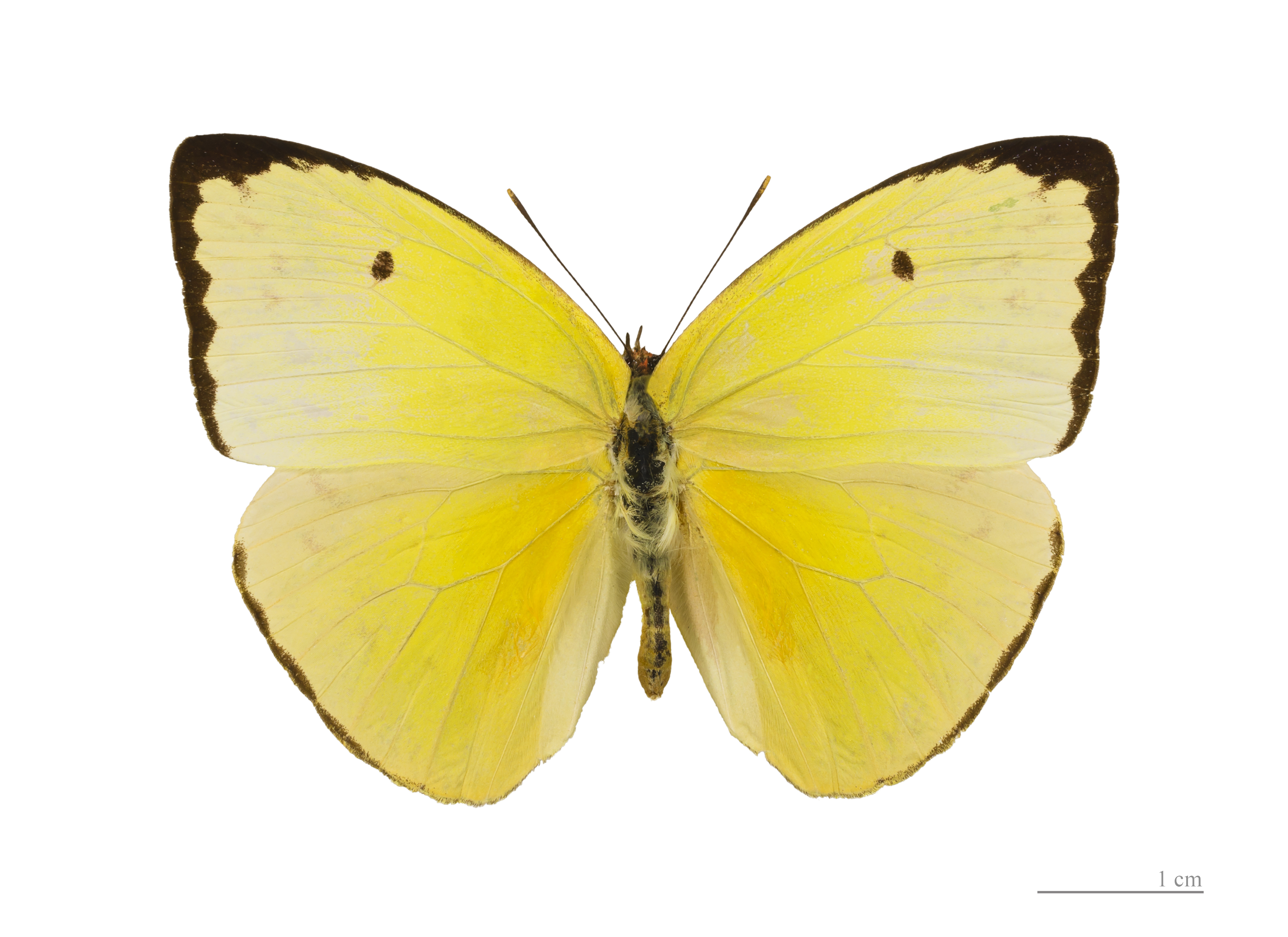 ♀ - Dorsal side Locality: Santarém Pará, Brazil (Type species).